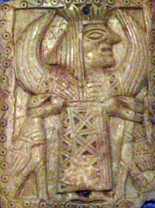 Ivory votive offering representing Artemis Orthia, found at the sanctuary of Artemis Orthia. National Archaeological Museum, Athens.